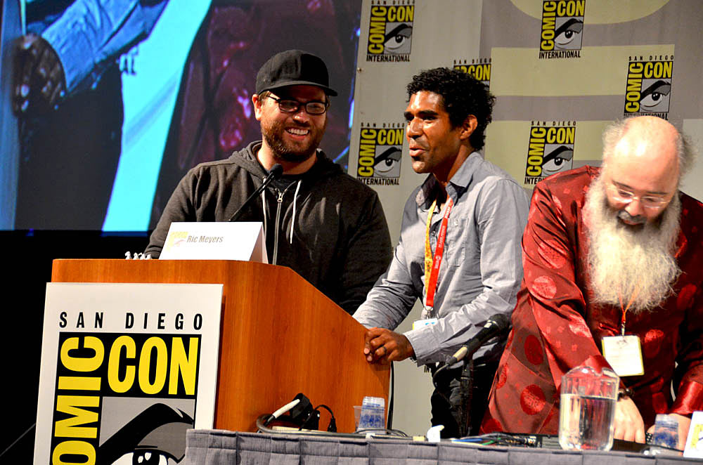 Jan Lucanus "JFH: Justice For Hire" live action feature film and animated series announcement with Zach Shelton and Ric Meyers at San Diego Comic Con's Superhero Kung Fu Extravaganza 2012.